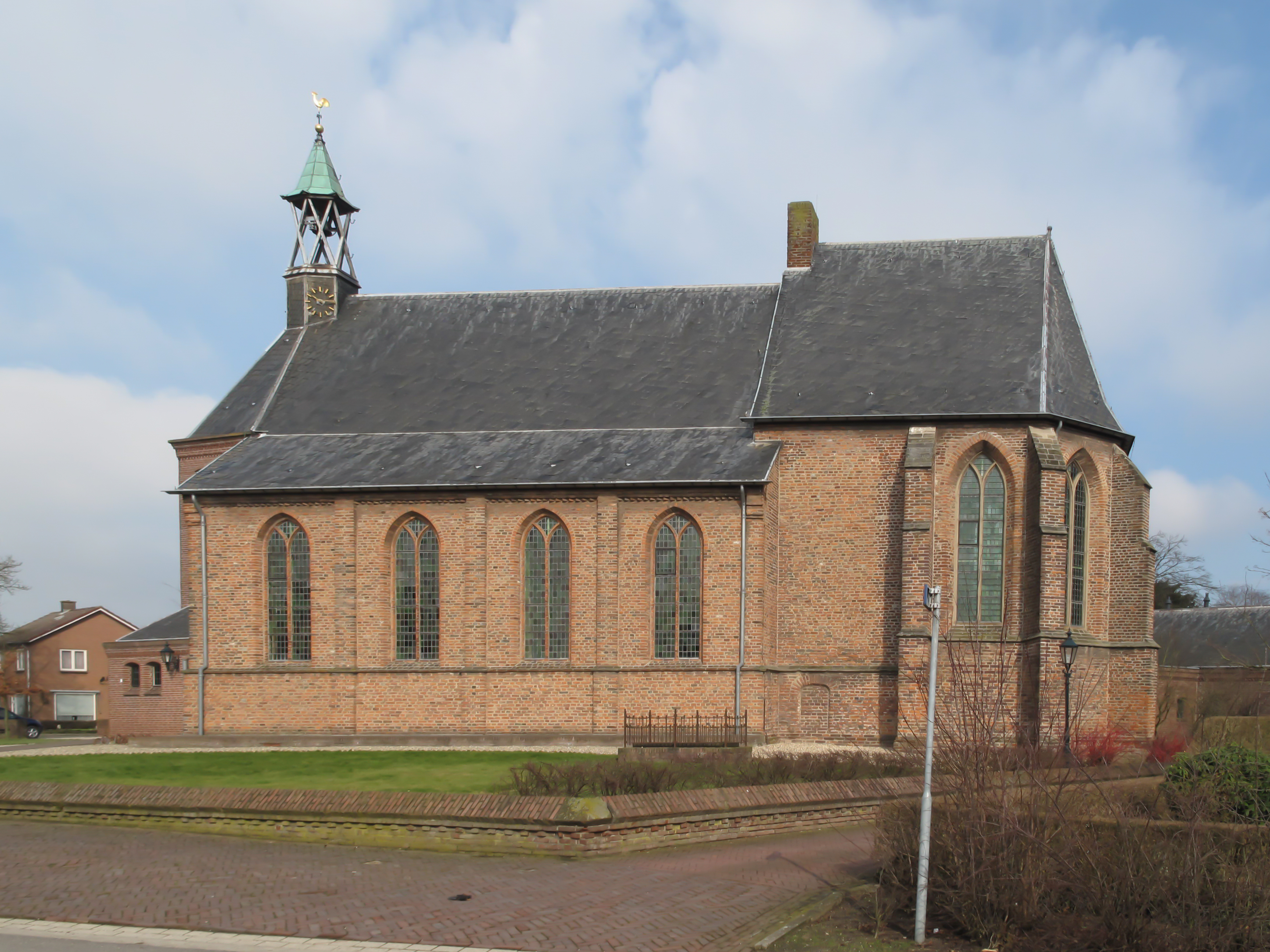 Randwijk, church